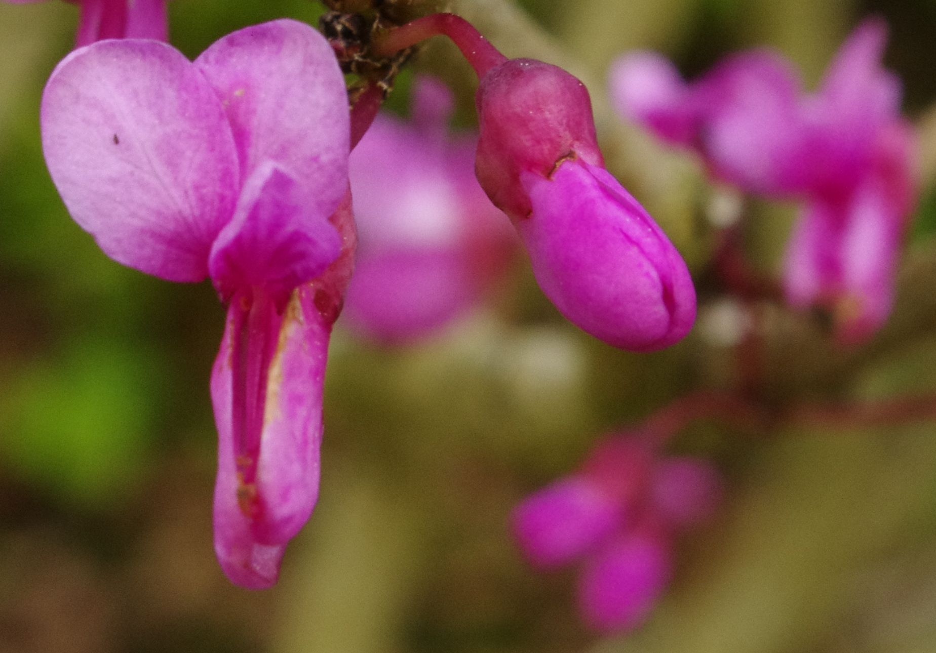 Cercis chinensis at the ÖBG Bayreuth